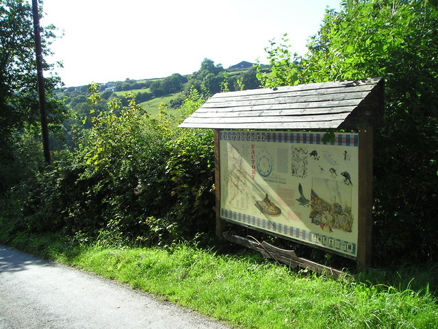 Cwmhiraeth notice board Board giving the history of Cwmhiraeth, once a busy industrial village with woollen mills and weaving shops.